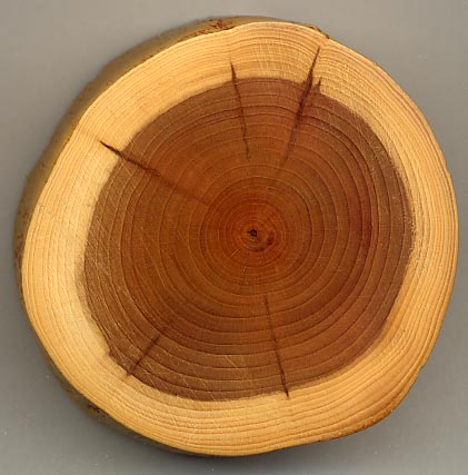 Yew wood (Taxus baccata) showing 27 annual growth rings, pale sapwood and dark heartwood, and pith (centre dark spot). The dark radial lines are small knots.